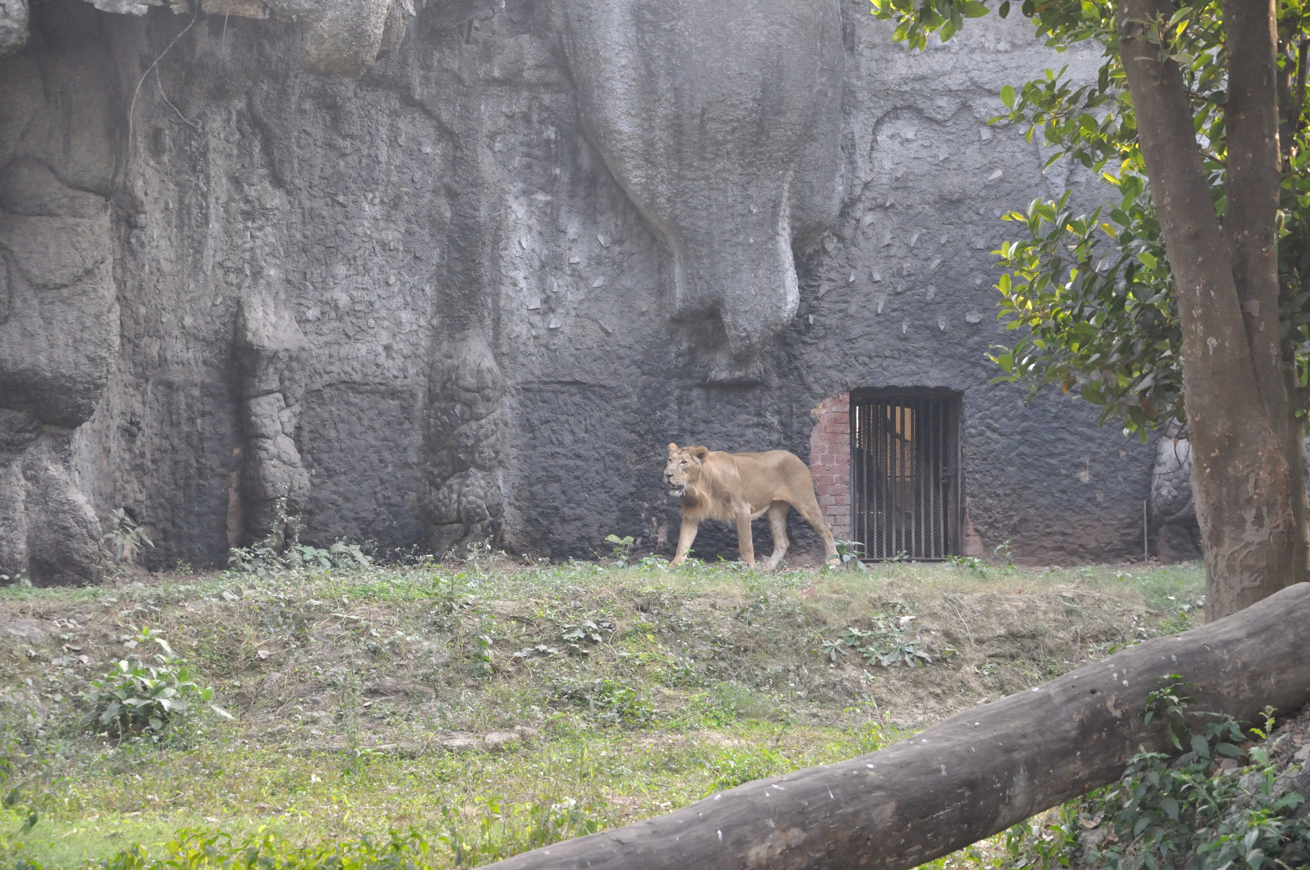 Lion enclosure at the Alipore Zoological Garden (also informally called the Alipore Zoo, Calcutta Zoo, Kolkata Zoo, or bn: Chiriyakhana, or hn: Chidiyakhana).